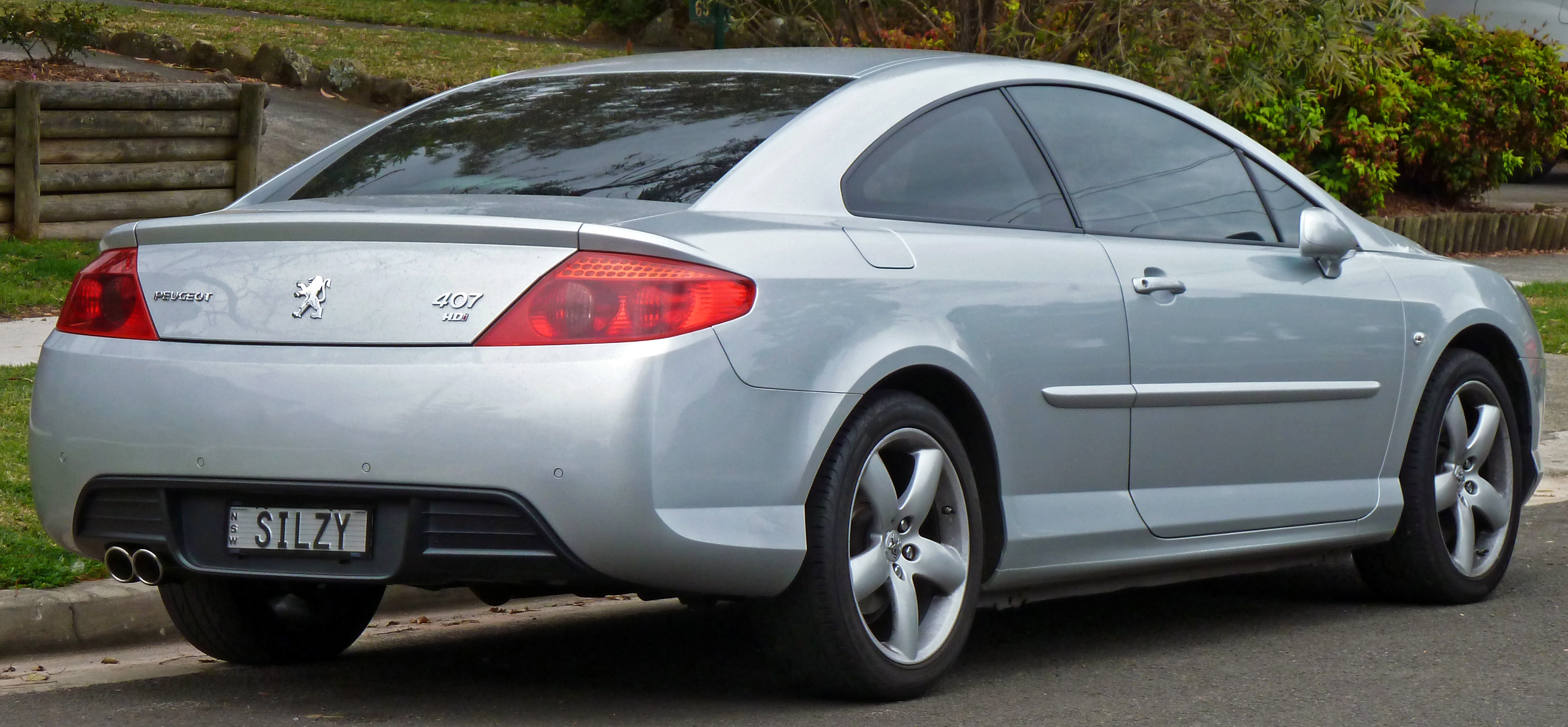 2006–2010 Peugeot 407 HDi coupe. Photographed in Gymea Bay, New South Wales, Australia.